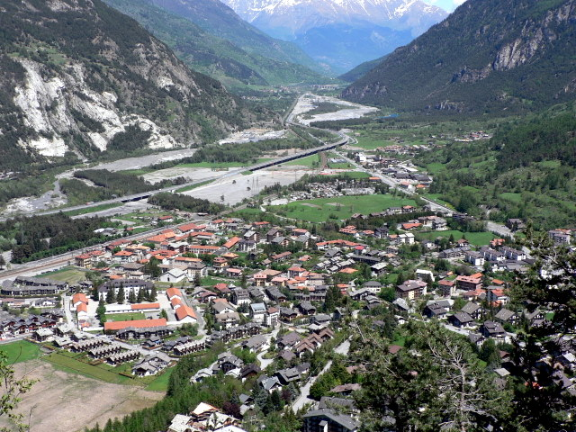 General view of Oulx, Piedmont, Italy